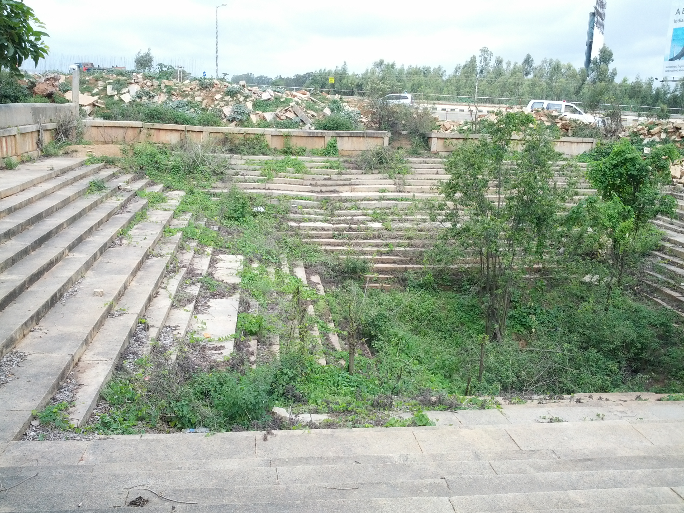 Devanahalli Fort